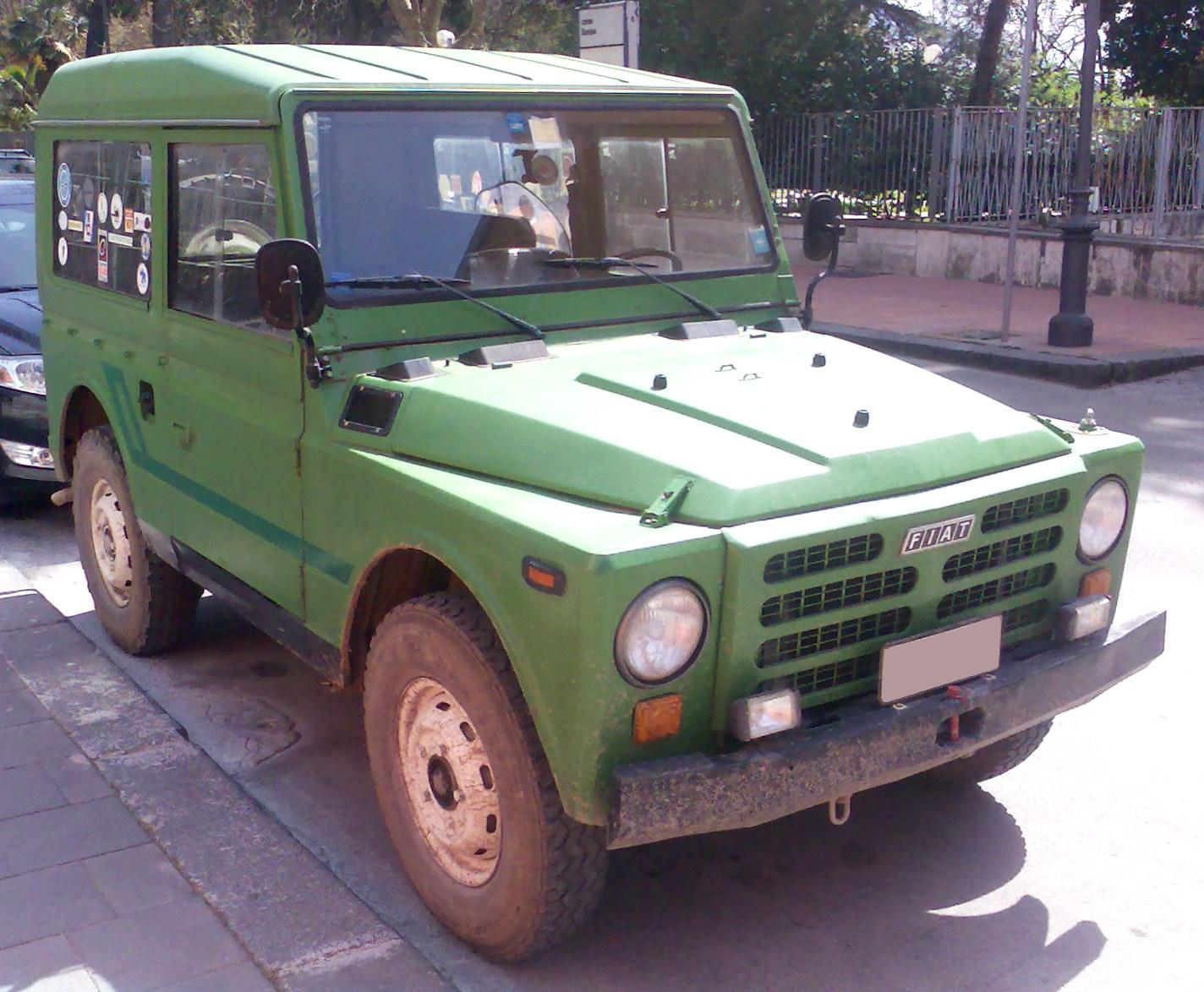 Fiat Campagnola (MK2 front)